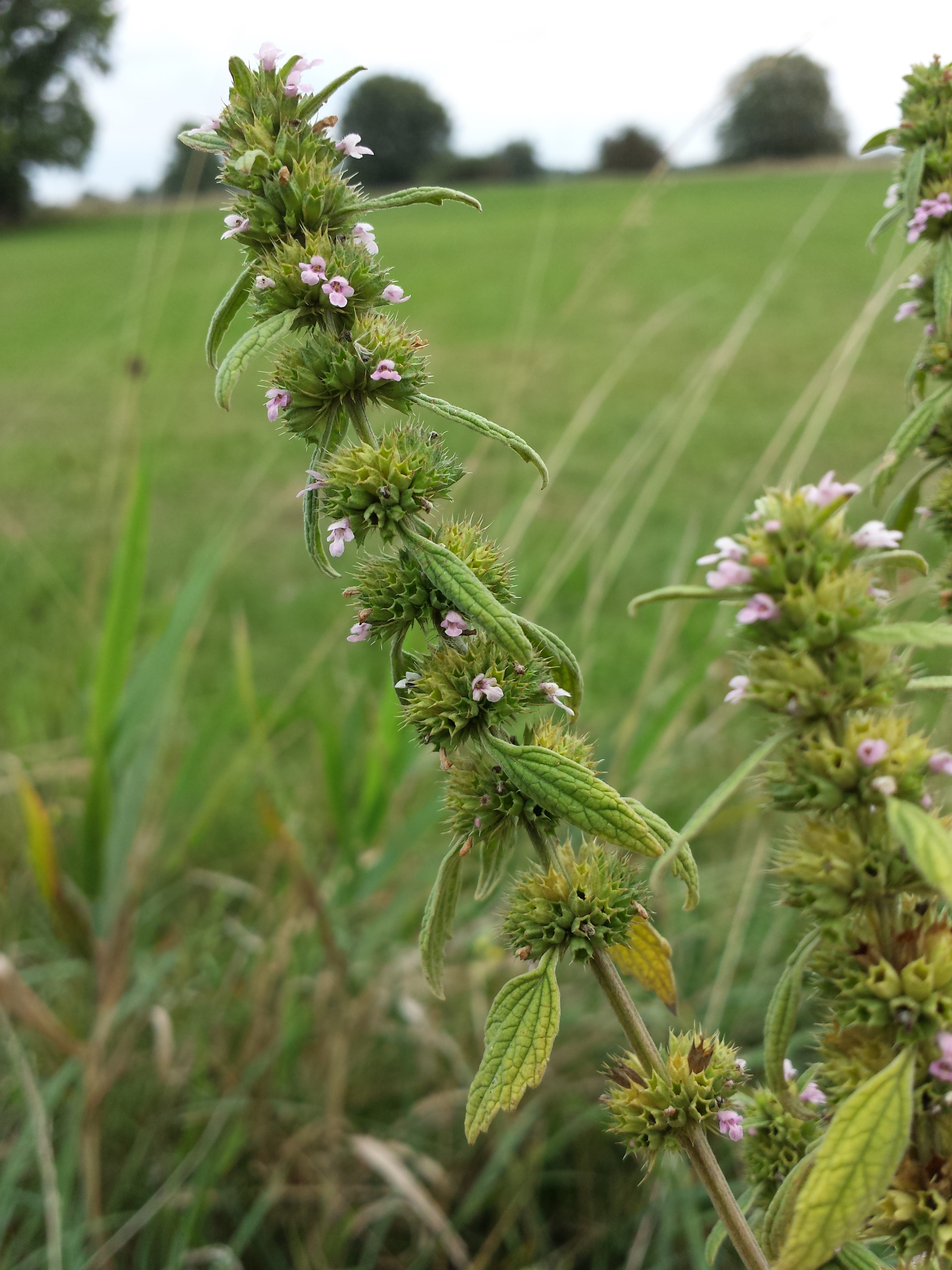 Inflorescence Taxonym: Leonurus marrubiastrum ss Fischer et al. EfÖLS 2008 ISBN 978-3-85474-187-9 (det. W. Adler 2015-09-05) Location: Erlwiesen Bernhardsthal, district Mistelbach, Lower Austria - ca. 160 m a.s.l. Habitat: wet meadow / border of a field